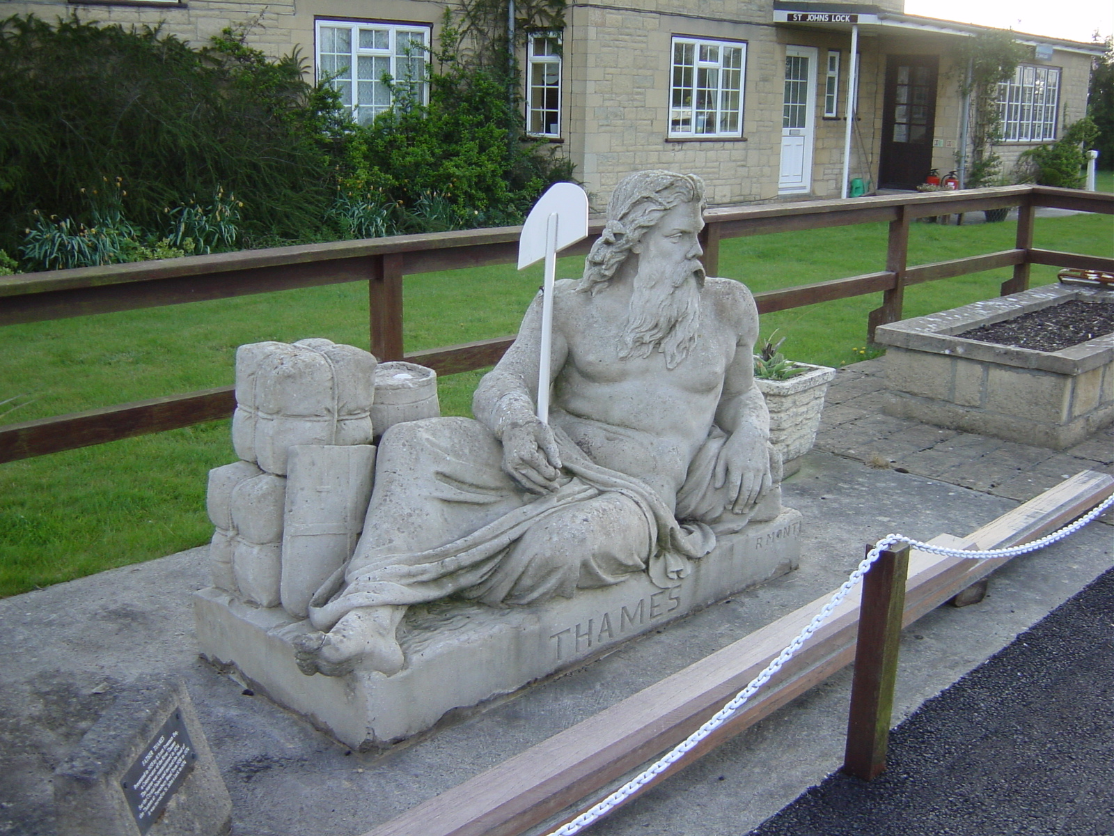 Statue of Father Thames, alongside St John's Lock at Lechlade, Gloucestershire.